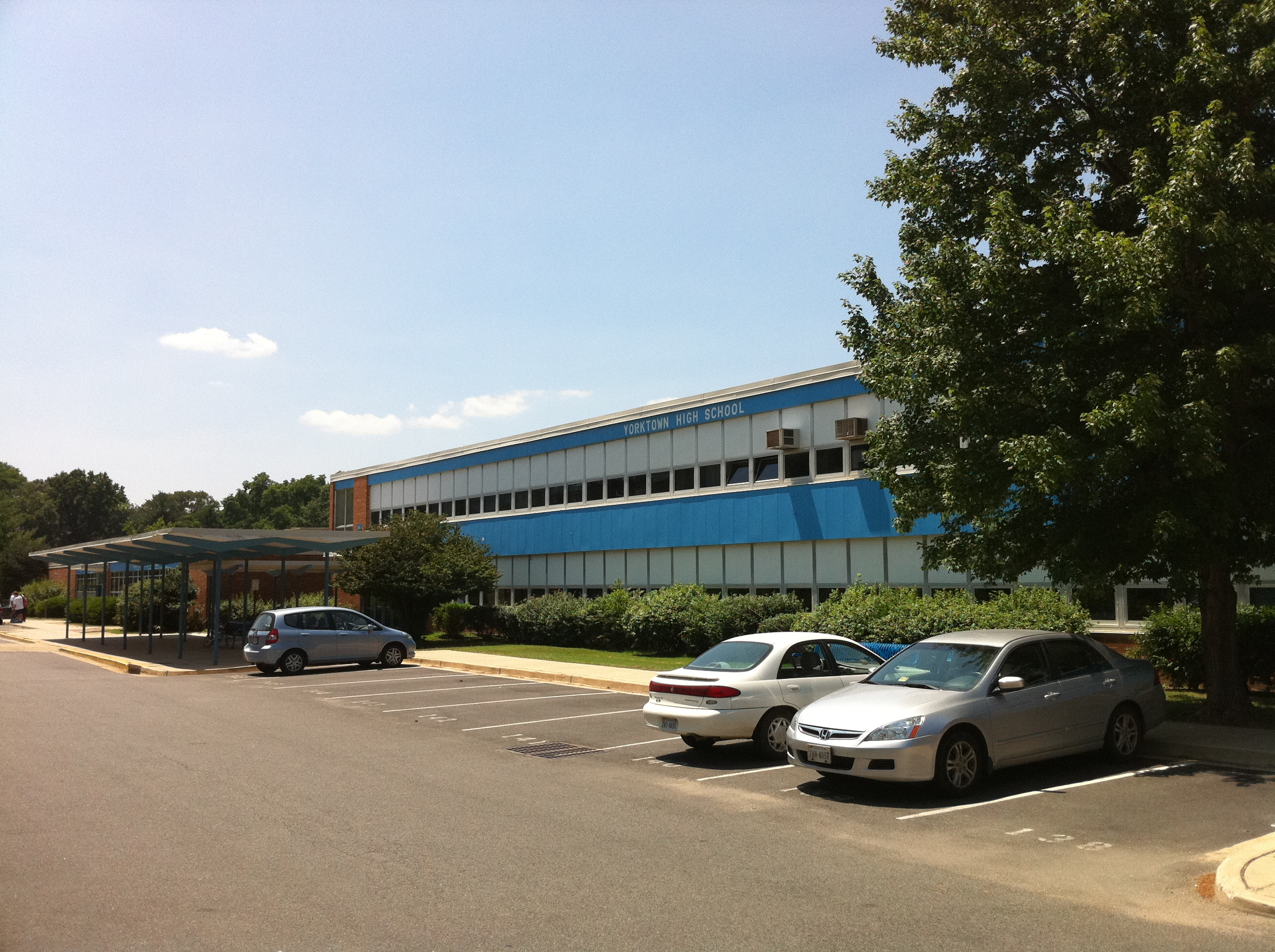 Original front of Yorktown High School, prior to 2010 re-build